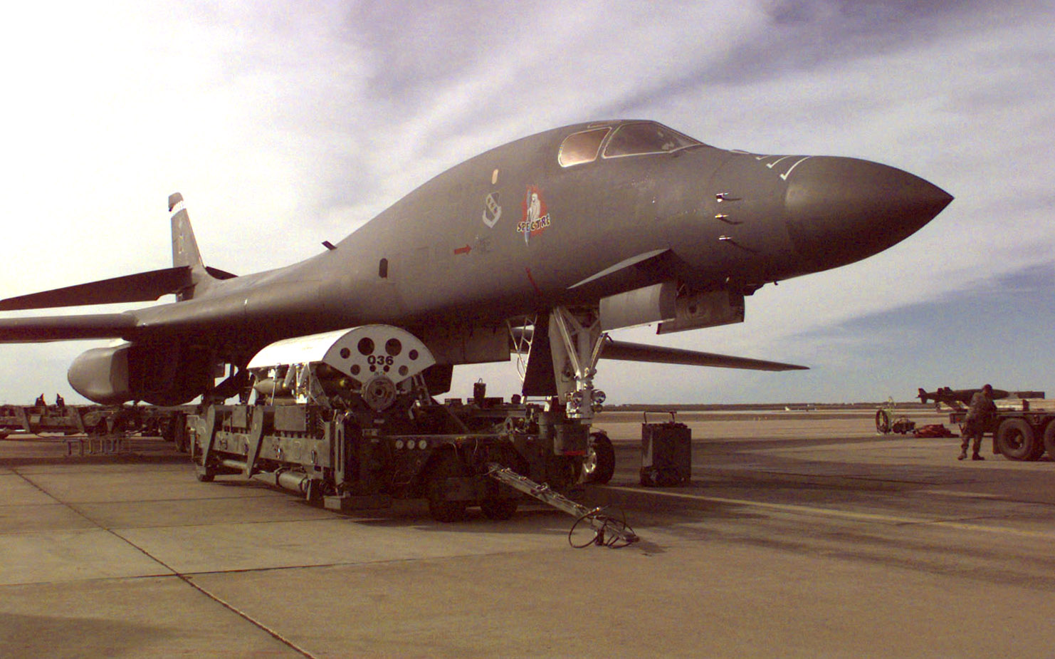 A U.S. Air Force B1-B Lancer bomber from the 28th Bomb Squadron is loaded with MK-82 bombs at Dyess Air Force Base, Texas, as the aircraft is prepared for a mission in support of Operation Desert Fox, on Dec. 17, 1998.